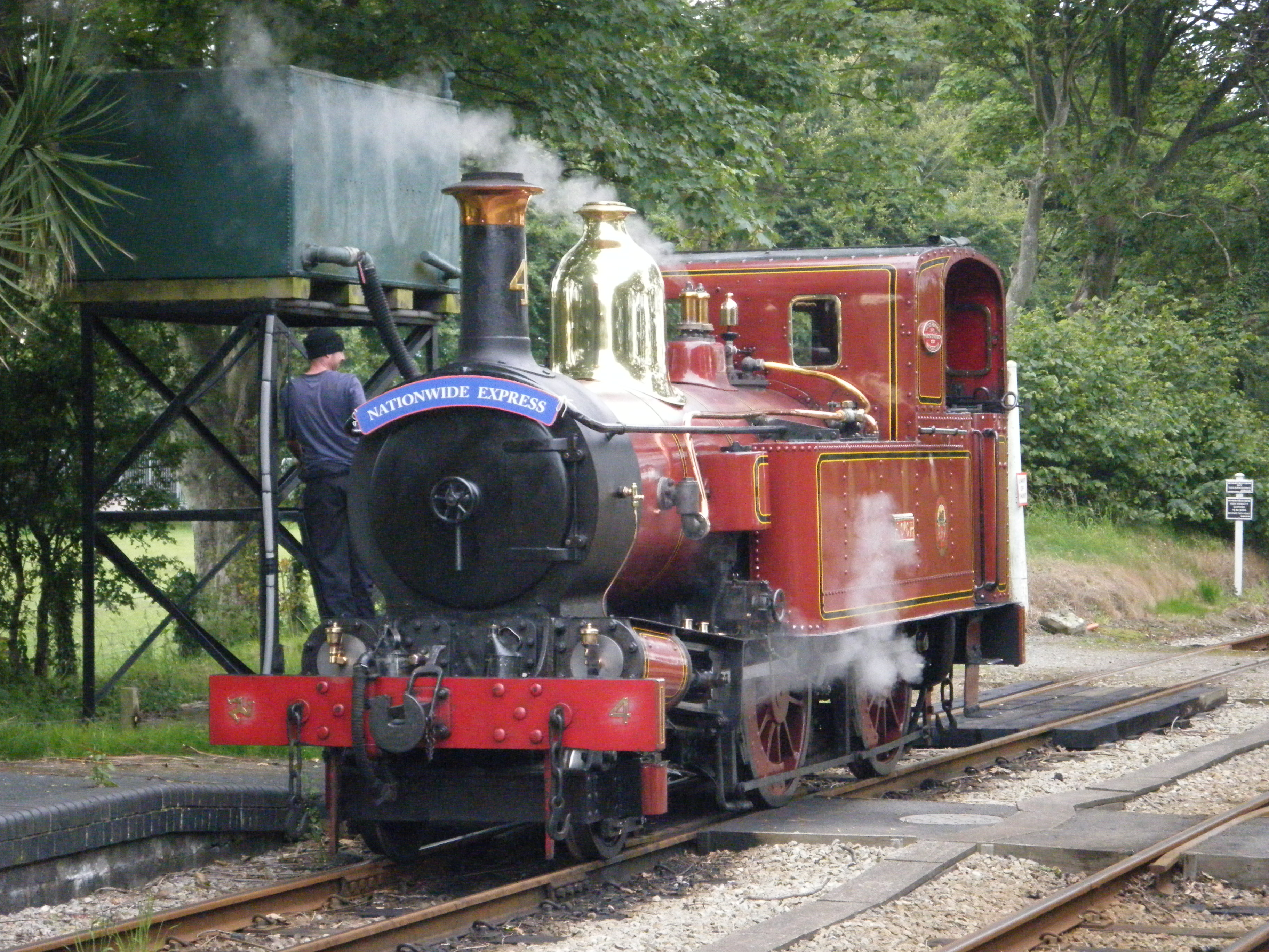 No. 4 Loch taking water at Castletown Station on the Isle of Man Railway